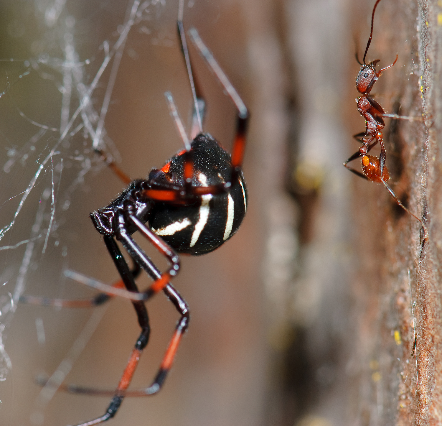 Latrodectus variolus (Northern Black Widow), imaged in situ, at night